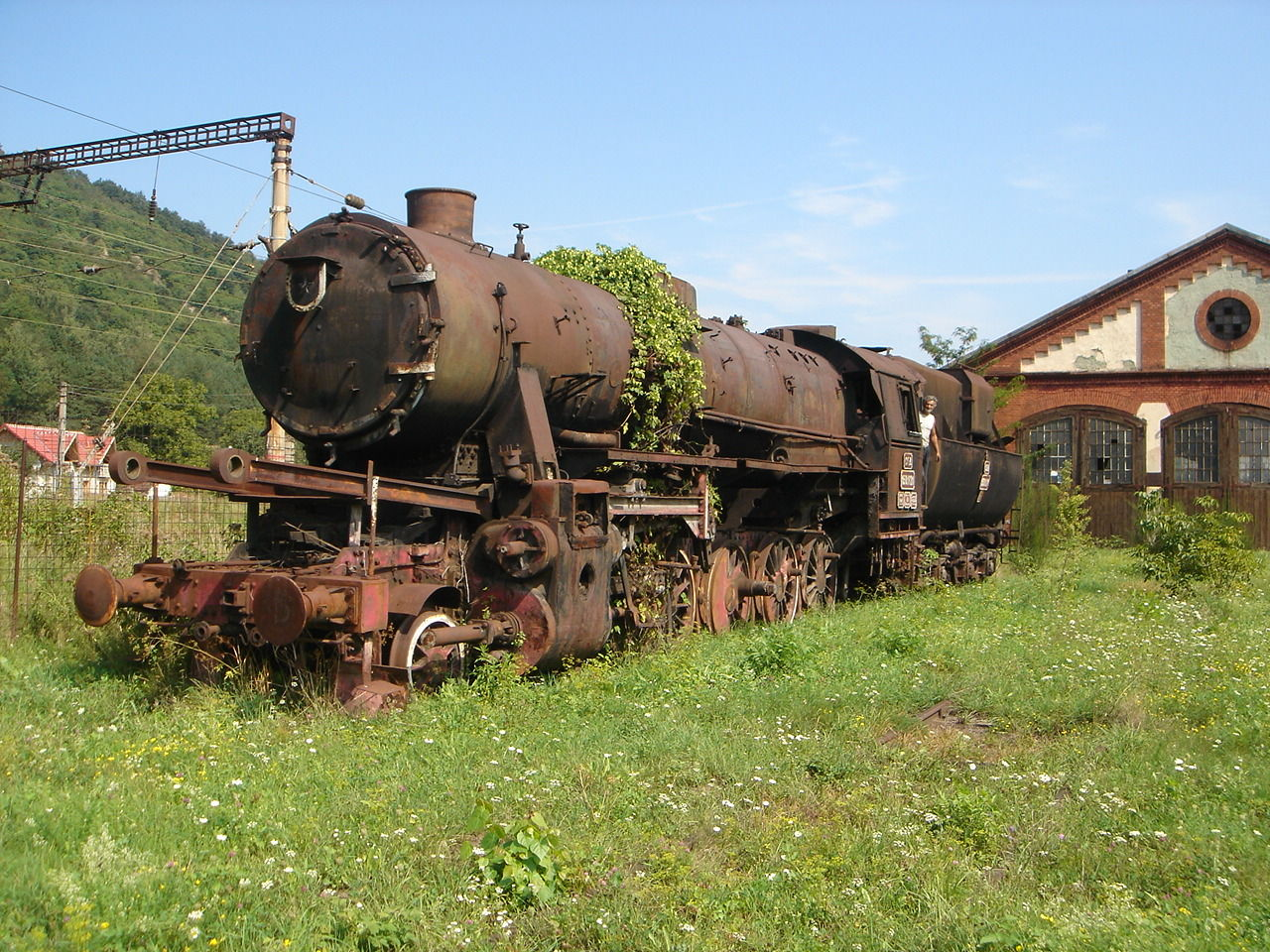 CFR 150.1124 , formerly DRB class 50 1527, in Subcetate depot